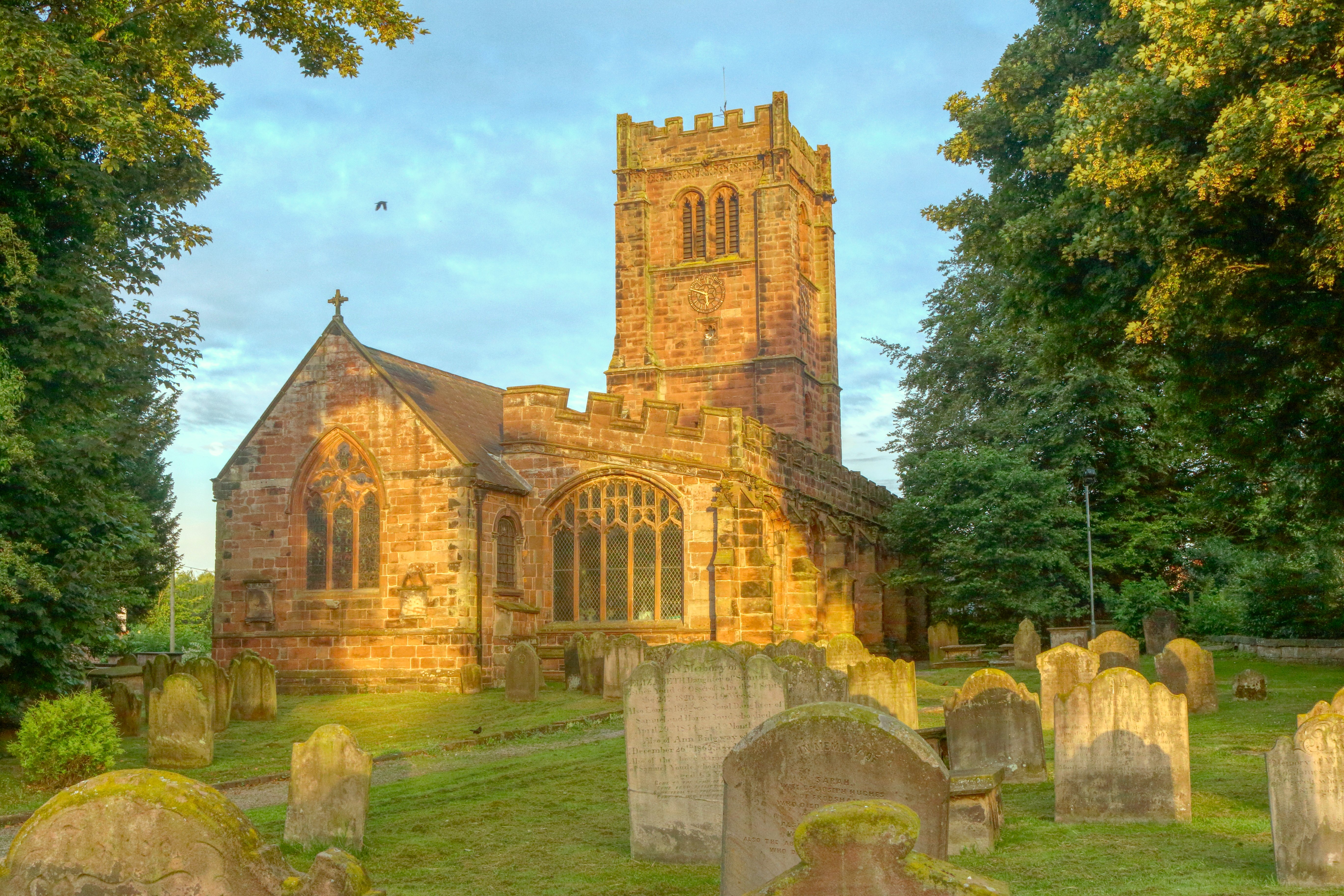 The East end of St Andrew's Church, Tarvin, Cheshire, England. Built in the 12th century, the tower and the North aisle were added in the late 15th century. The clock in the tower, made by J. B. Joyce & Co of Whitchurch, dates to 1887. It was installed to mark the Golden Jubilee of Queen Victoria, and its chimes are a feature of village life.